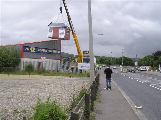 Hi-Q Modern Tyre Service, Strabane. It is located along the Lifford Road.